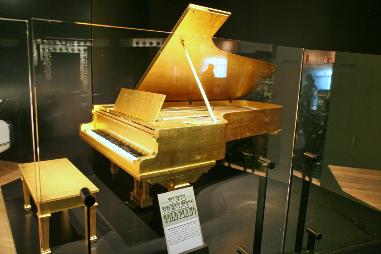 Elvis Presley's Gold Piano, CMHF